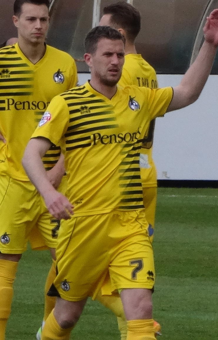 Lee Mansell playing for Bristol Rovers against York City at Bootham Crescent, York on 30 April 2016